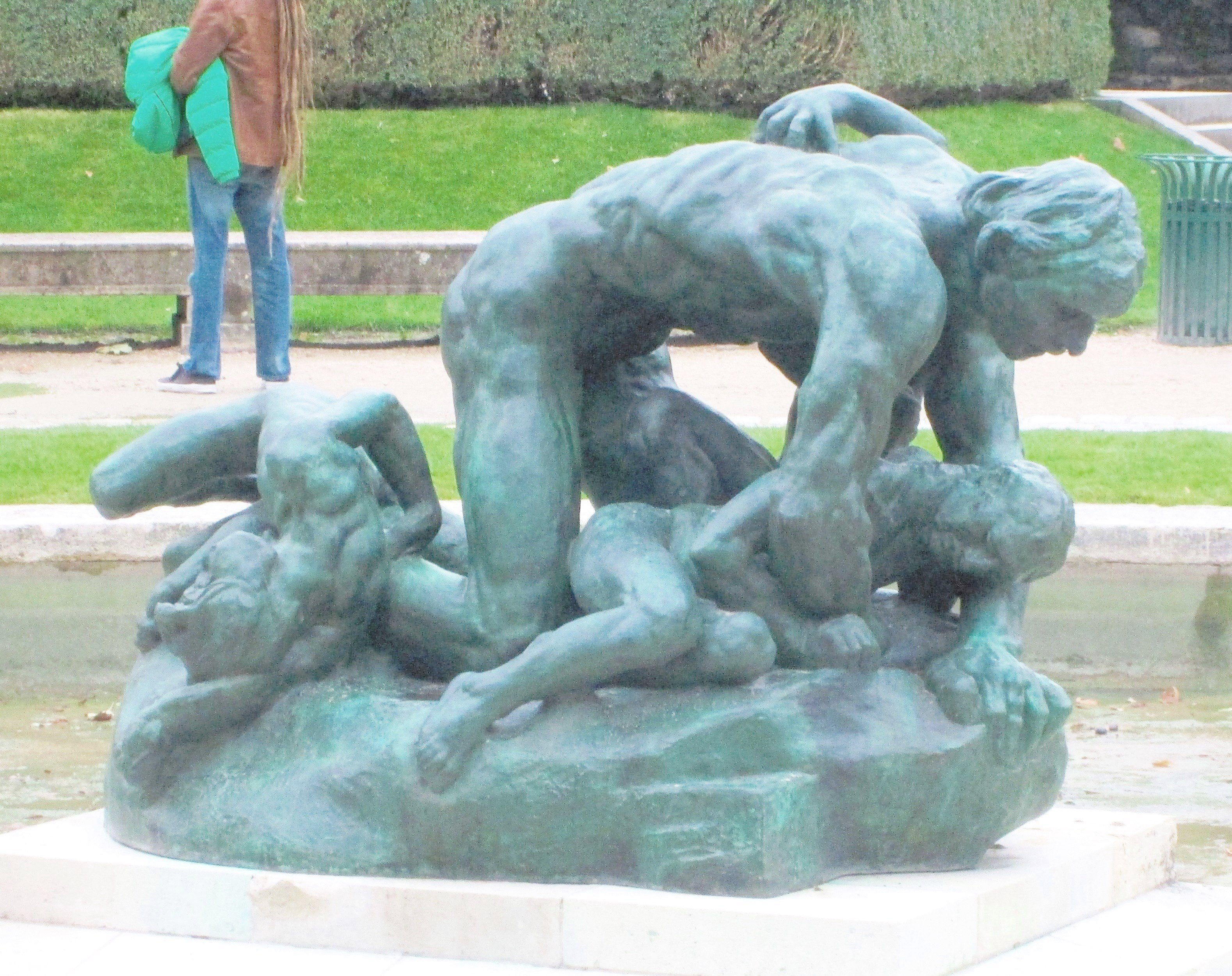 Ugolin et ses enfants, grand modèle ("Ugolino and His Children, Large Model") is based on a section of Dante's The Divine Comedy, in which Count Ugolino, insane from hunger, eats his own children. It was conceived for Rodin's large work La porte de l'Enfer ("The Gates of Hell"), and was subsequently enlarged into a full-size grouping. This version in the Garden of the Rodin Museum in Paris was cast from the model dated 1902-09. (Source: Musée Rodin)